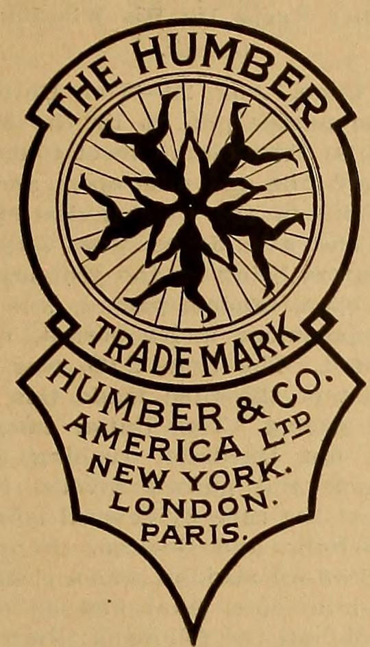 Humber & Co advertisement 1888 The Wheel and Cycling Trade Review, New York